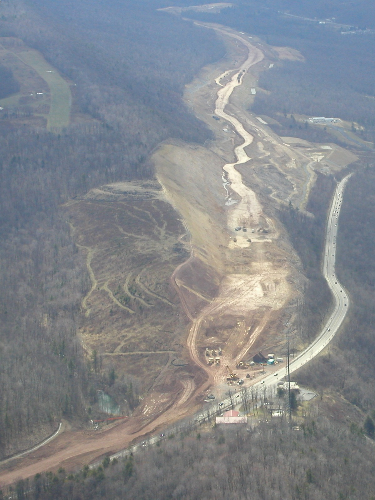 Interstate 99 excavation in 2002, looking south from Julian toward Port Matilda on Bald Eagle Mountain, where acidic rock was exposed. U.S. Route 322 and U.S. Route 220 (Skytop Mountain Road) runs below the I-99 alignment. Eagle Field private airport is at the upper left.